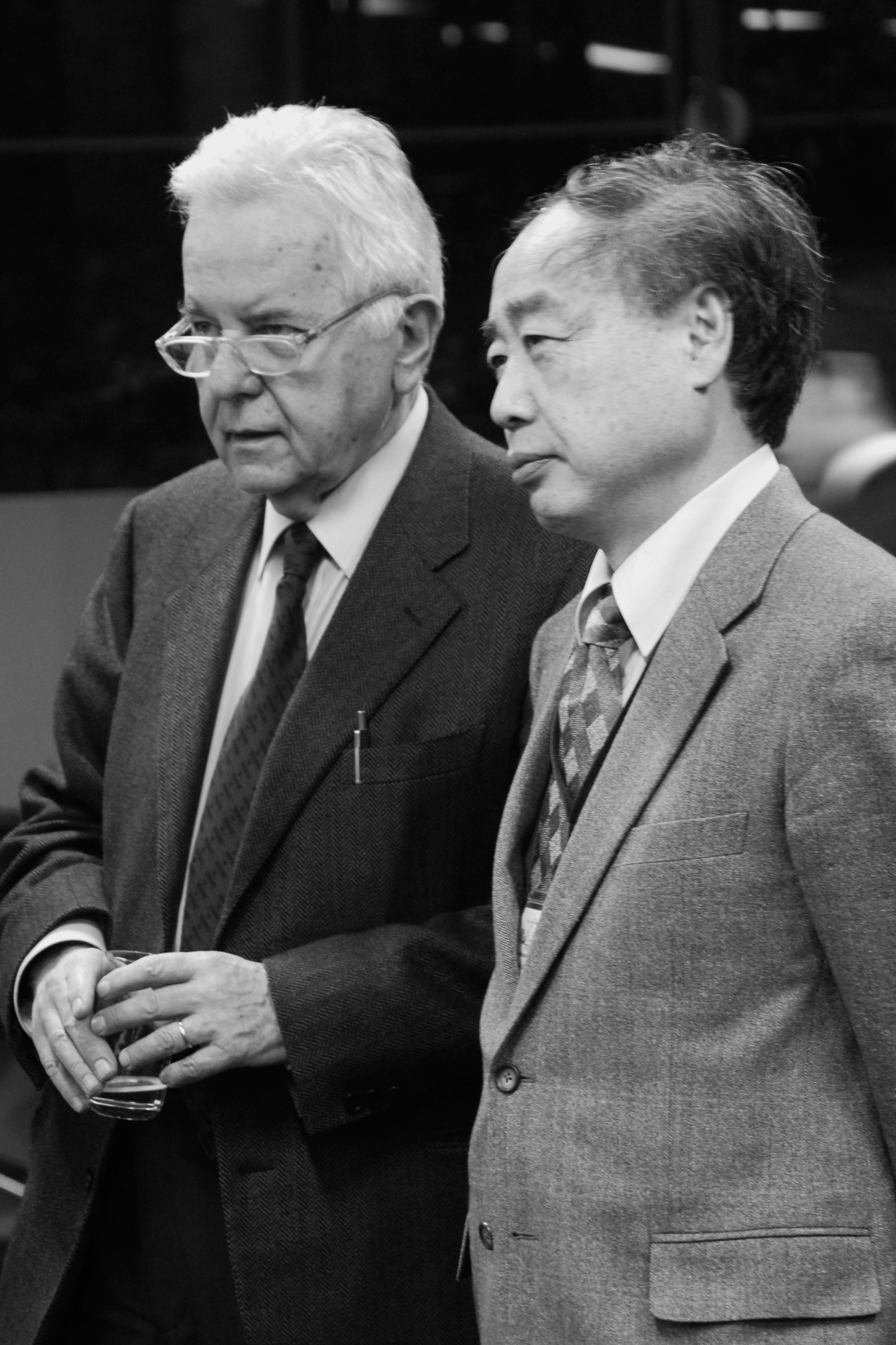 Nicola Cabibbo and Makoto Kobayashi at the CKM Workshop 2006, Nagoya, Japan